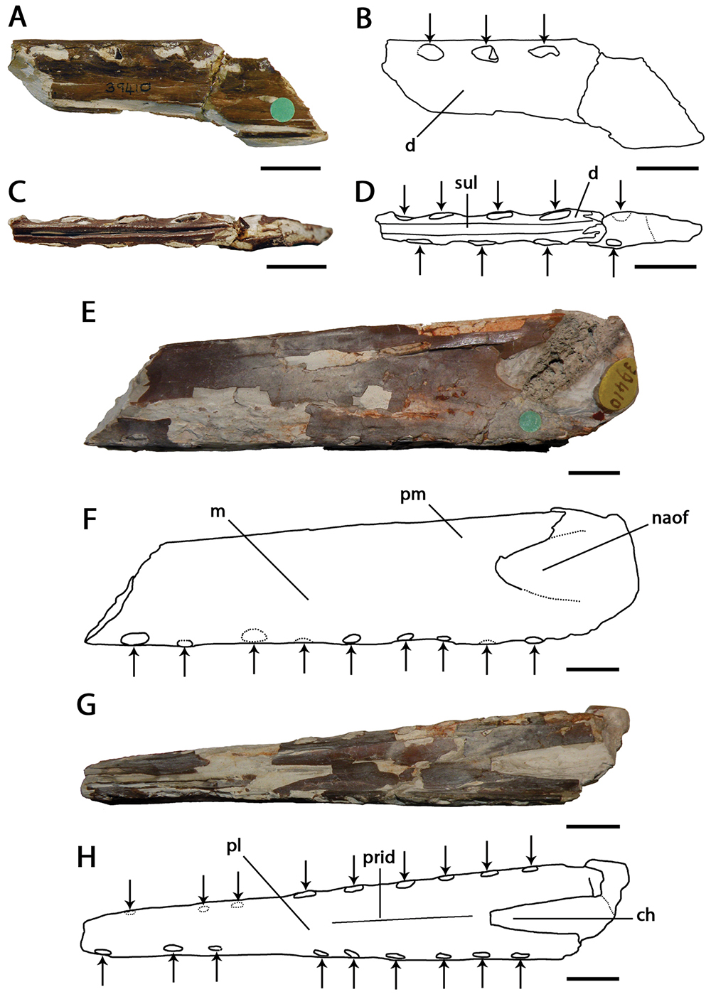 Pterodactylus compressirostris, holotype NHMUK PV 39410 (Cenomanian / Turonian, Chalk Formation). A–D proposed lectotype, fragment of the mandibular symphysis A left lateral view B respective line drawing C dorsal view D respective line drawing. E–H referred specimen, portion of the rostrum E left lateral view F respective line drawing G ventral view H respective line drawing. Abbreviations: ch – choanae, d – dentary, m – maxillae, naof – nasoantorbital fenestra, pl – palatine, pm – premaxillae, prid – palatal ridge, sul– sulcus. Arrows indicate alveoli or teeth. Scale bar = 10 mm. Photos courtesy of The Natural History Museum.